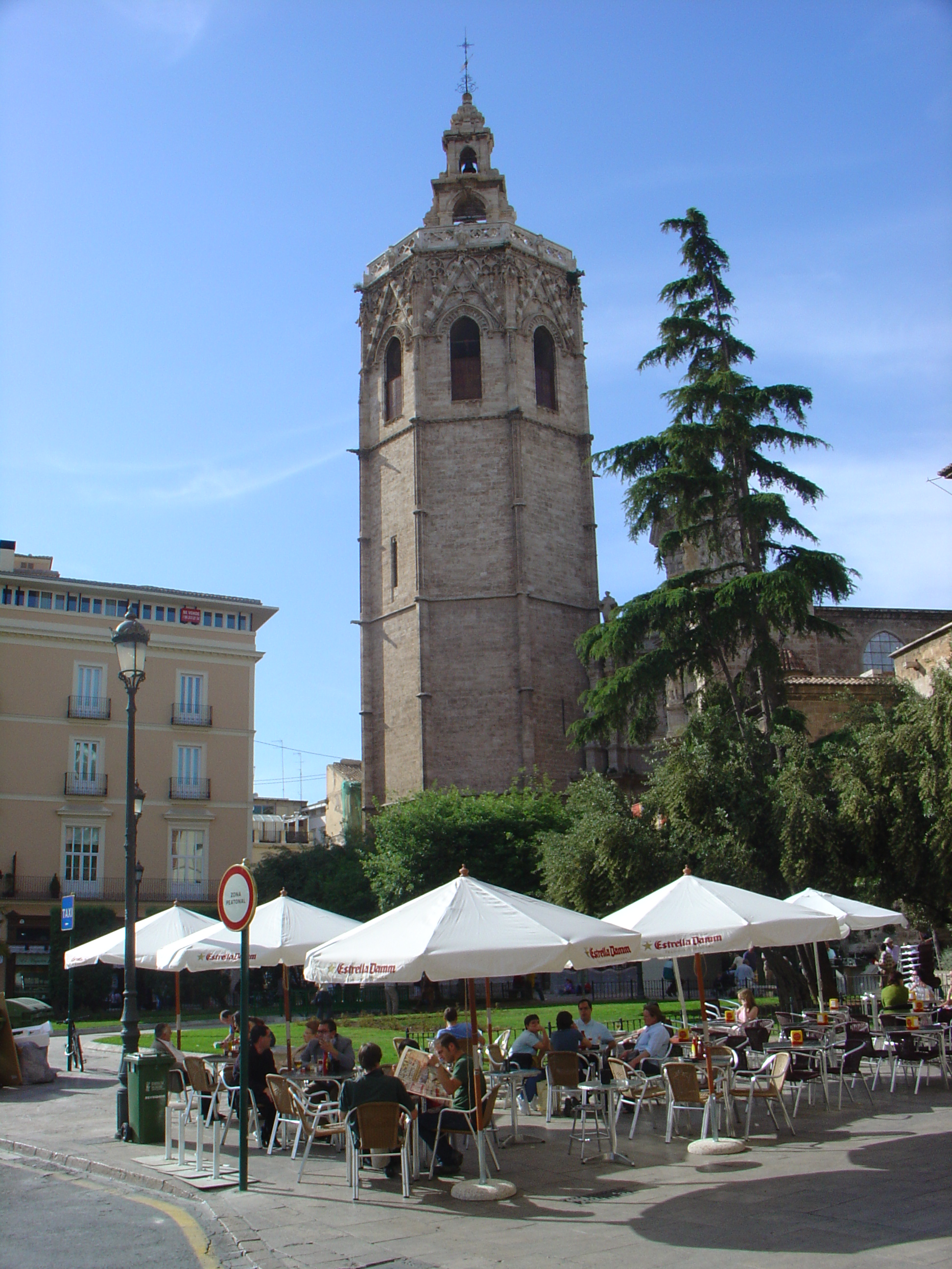 Photo of Miguelete taken by Michel BUZE (GFDL license)